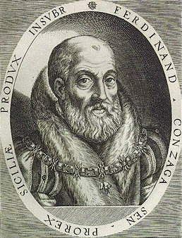 Portrait of Ferrante Gonzaga (1507-1557)